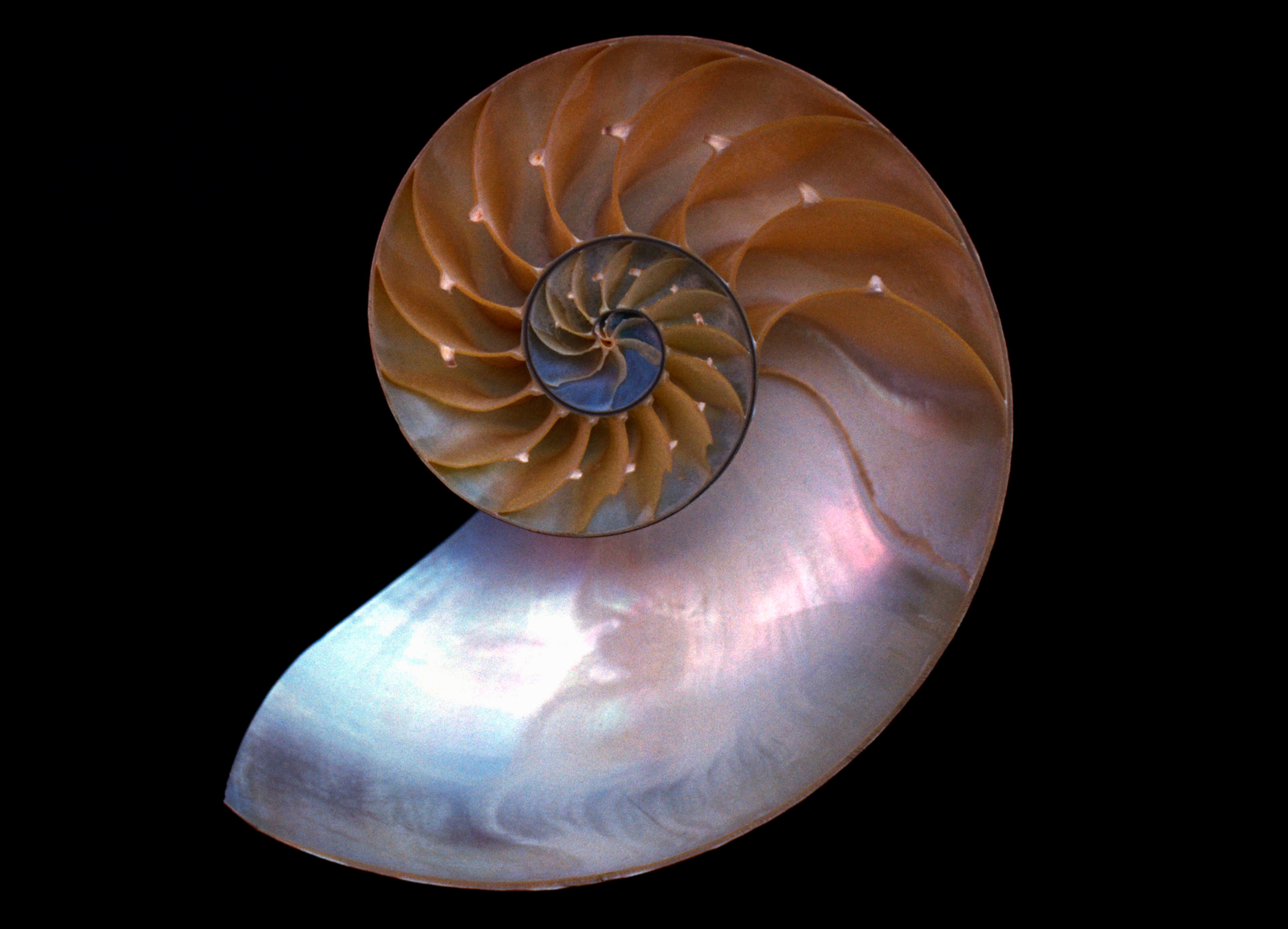 Sagittal section of the shell of the “primitive” extant cephalopod species Nautilus macromphalus. The contrast of the photograph was artificially enhanced in order to show the iridescence (structural colors) of the mother of pearl layer that is making up the internal surface of the shell.